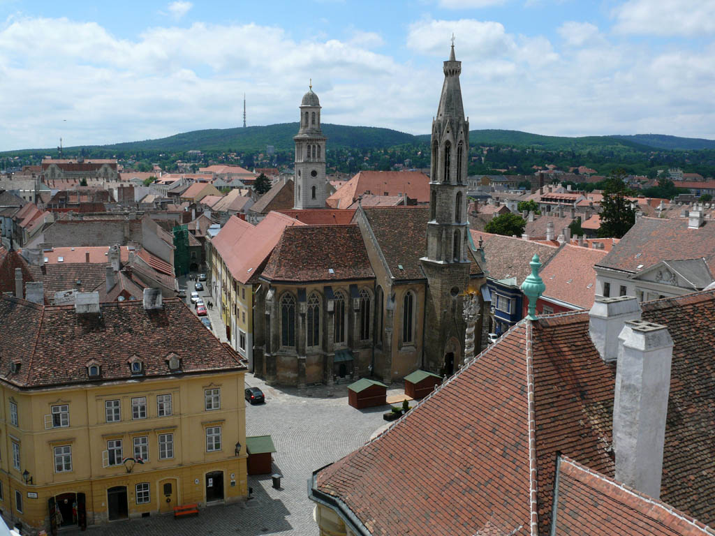 Sopron, view from the Fire tower, main square with Goat Church